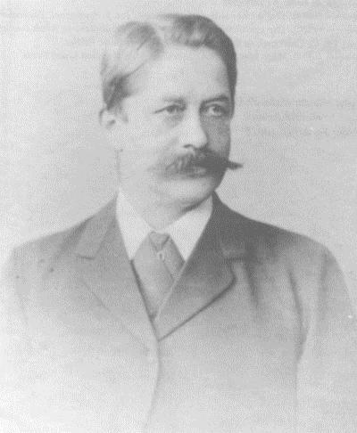 Senatspräsident Daniel Paul Schreber c. 1890